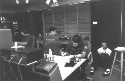 This is a photo I took on March 4th, 1999, approximately 2-and-a-half months before the release of "Black Sails in the Sunset." My brother was an employee of the Art of Ears studio in Hayward, and I took a tour of the studio with him on the day this was taken. We ran into the band in the soundboard room, and I took the photo.